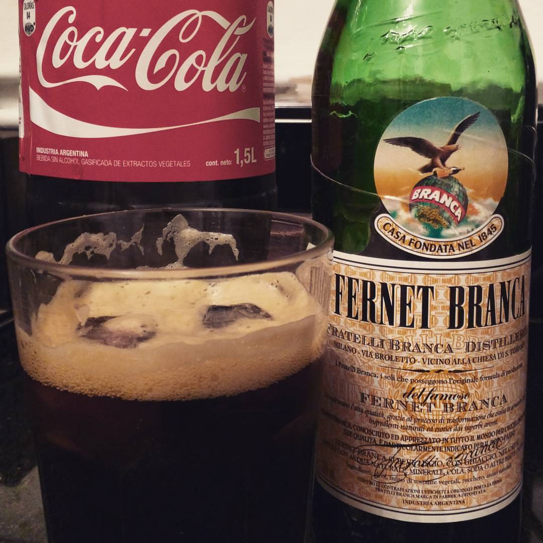 Fernet and Coke.